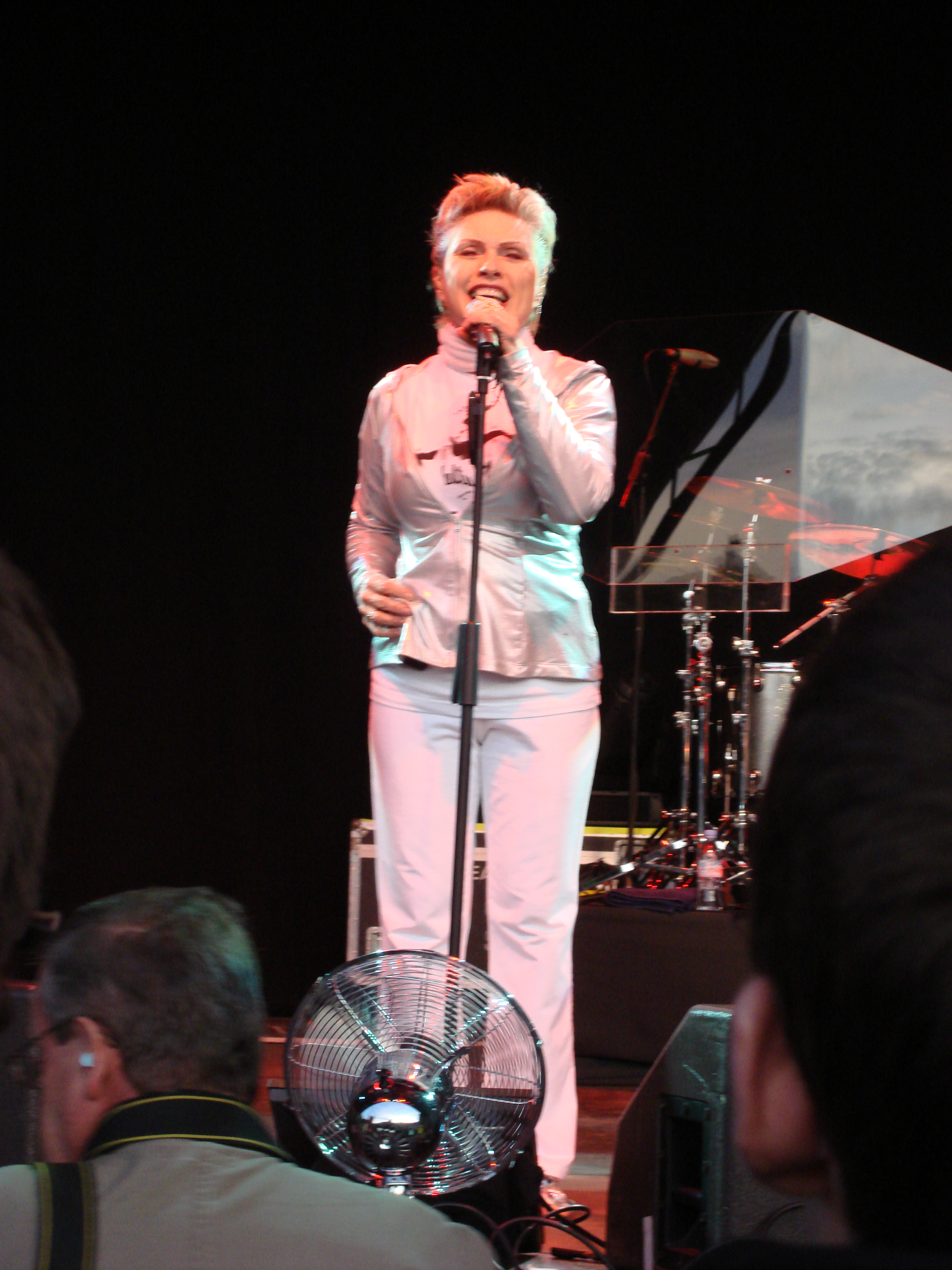 Deborah Harry, from Blondie, Thetford Forrest, UK